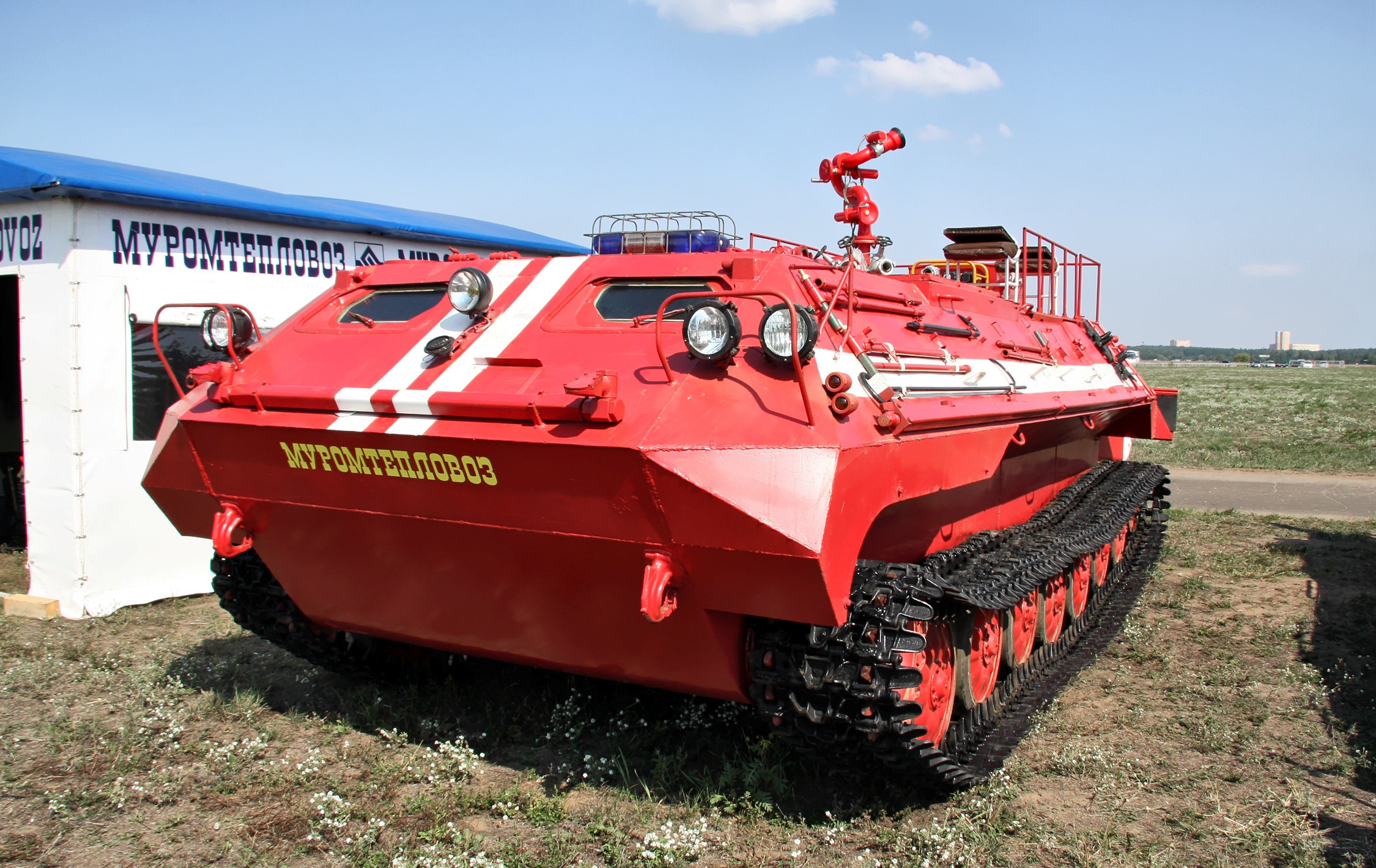 MT-LBu-GPM-10 tracked fire fighting vehicle.